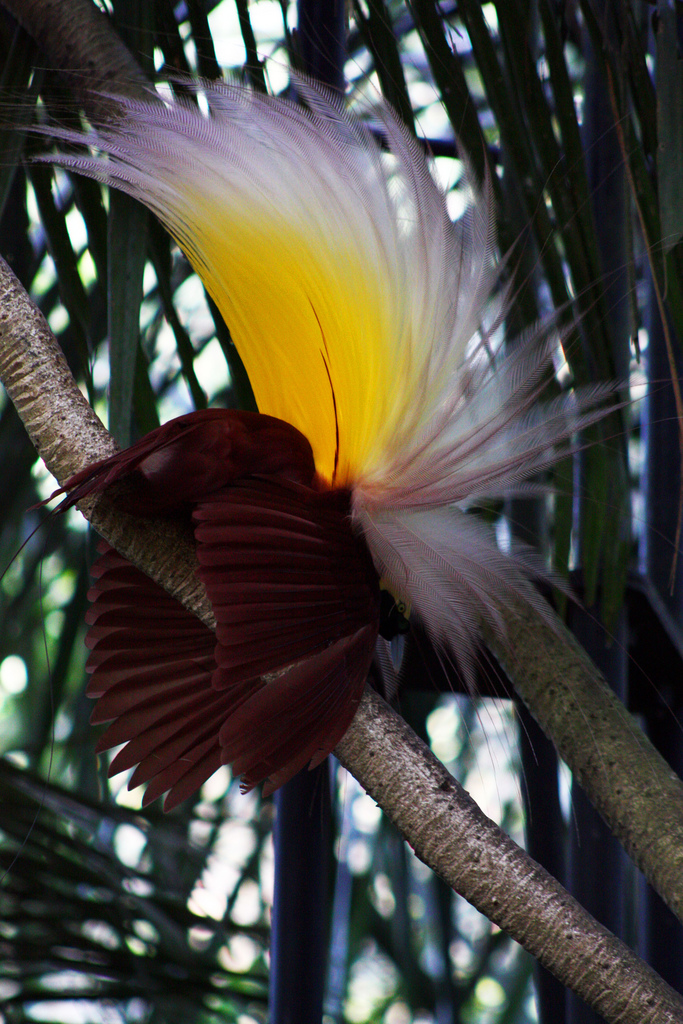 Greater Bird of Paradise (Paradisaea apoda). Male at Bali Bird Park.